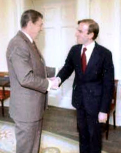 Ronald Reagan and Elliott Abrams, Assistant Secretary of State for Human Rights and Humanitarian Affairs